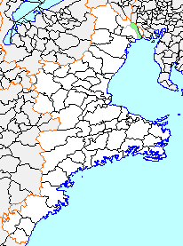 Map of Nagashima, Mie, Japan.